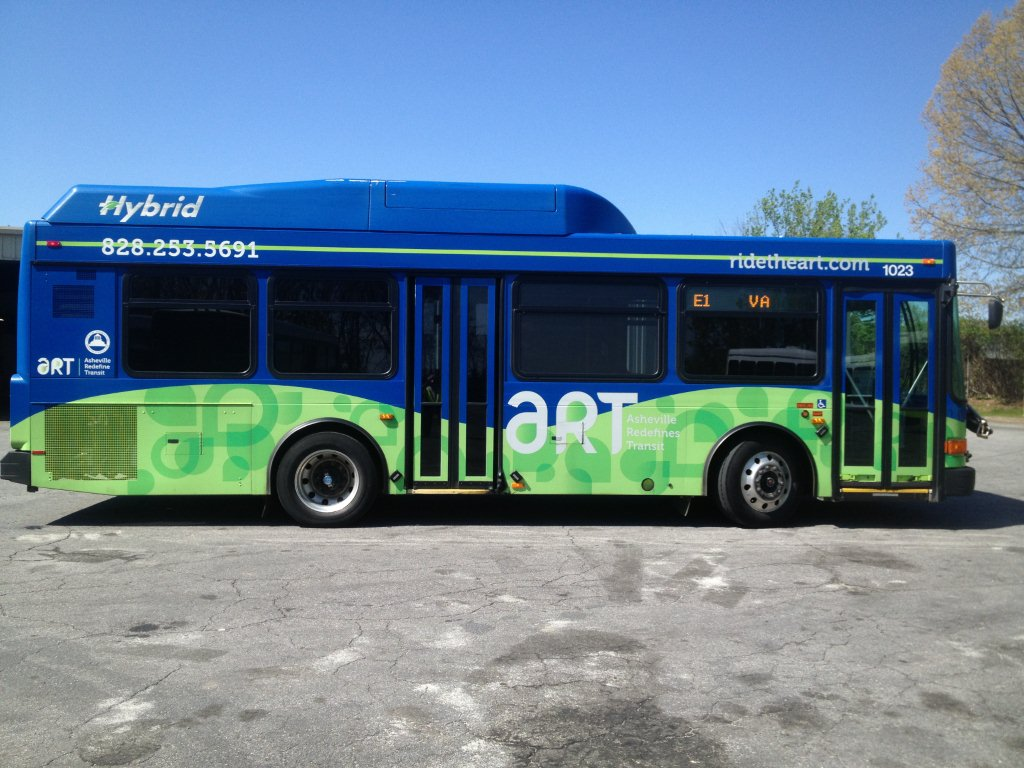 2010 Hybrid bus with new ART (Asheville Redefines Transit) graphics Captioned As {}